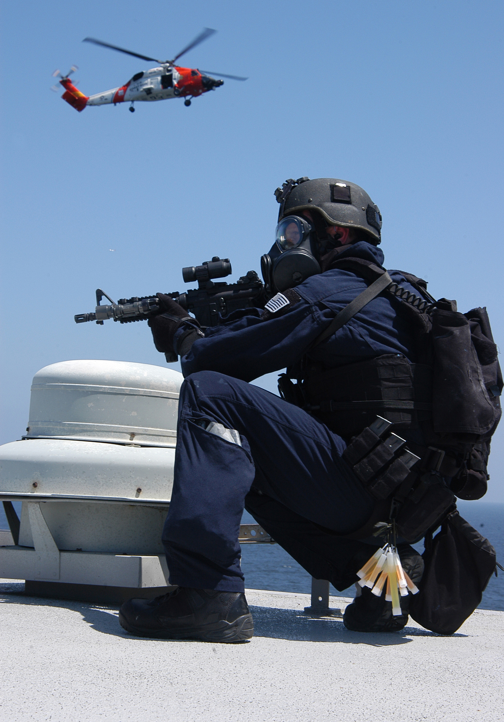 A member of the Coast Guard Maritime Security Response Team stands watch over a secured area as a MH-60 Jayhawk helicopter from Air Station Elizabeth City, N.C., flies overhead during a training exercise in the Gulf of Mexico. The MSRT is the Coast Guard's advanced interdiction force for higher risk law enforcement and counter-terrorism operations. This image has been altered for security purposes.